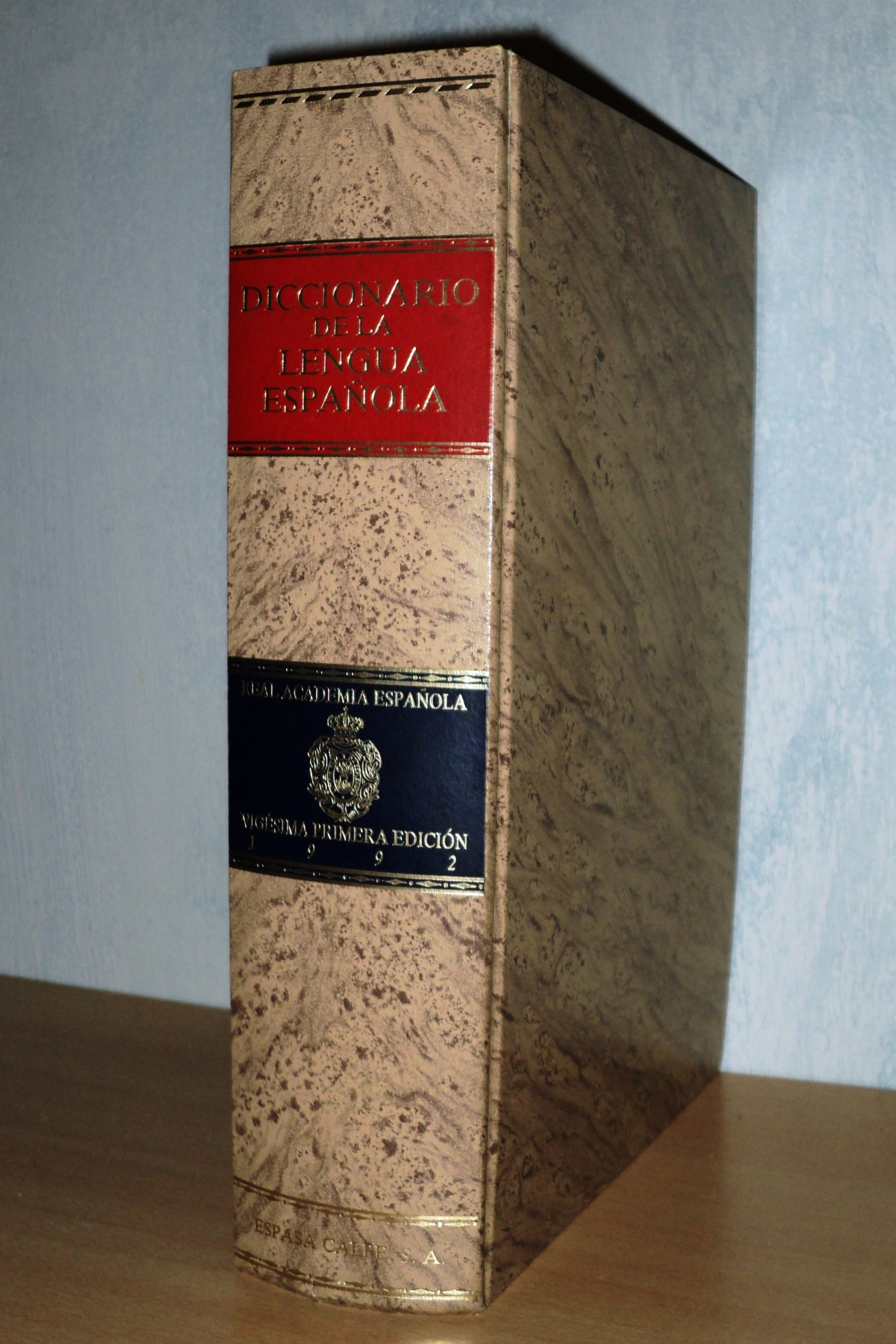 A copy of the 21st edition of the Diccionario de la lengua española (literally: Dictionary of the Spanish Language), published in 1992 by the Real Academia Española (literally: Royal Spanish Academy). This edition was conceived to commemorate the 500th anniversary of the Discovery of the Americas as well as the 500th anniversary of the first grammar of a modern European language to be published (Gramática de la lengua castellana, Antonio de Nebrija, 1492). Since the Discovery of the Americas founded the so called Hispanidad, this edition included numerous new entry words coming from the Spanish language as spoken in Hispanic America.